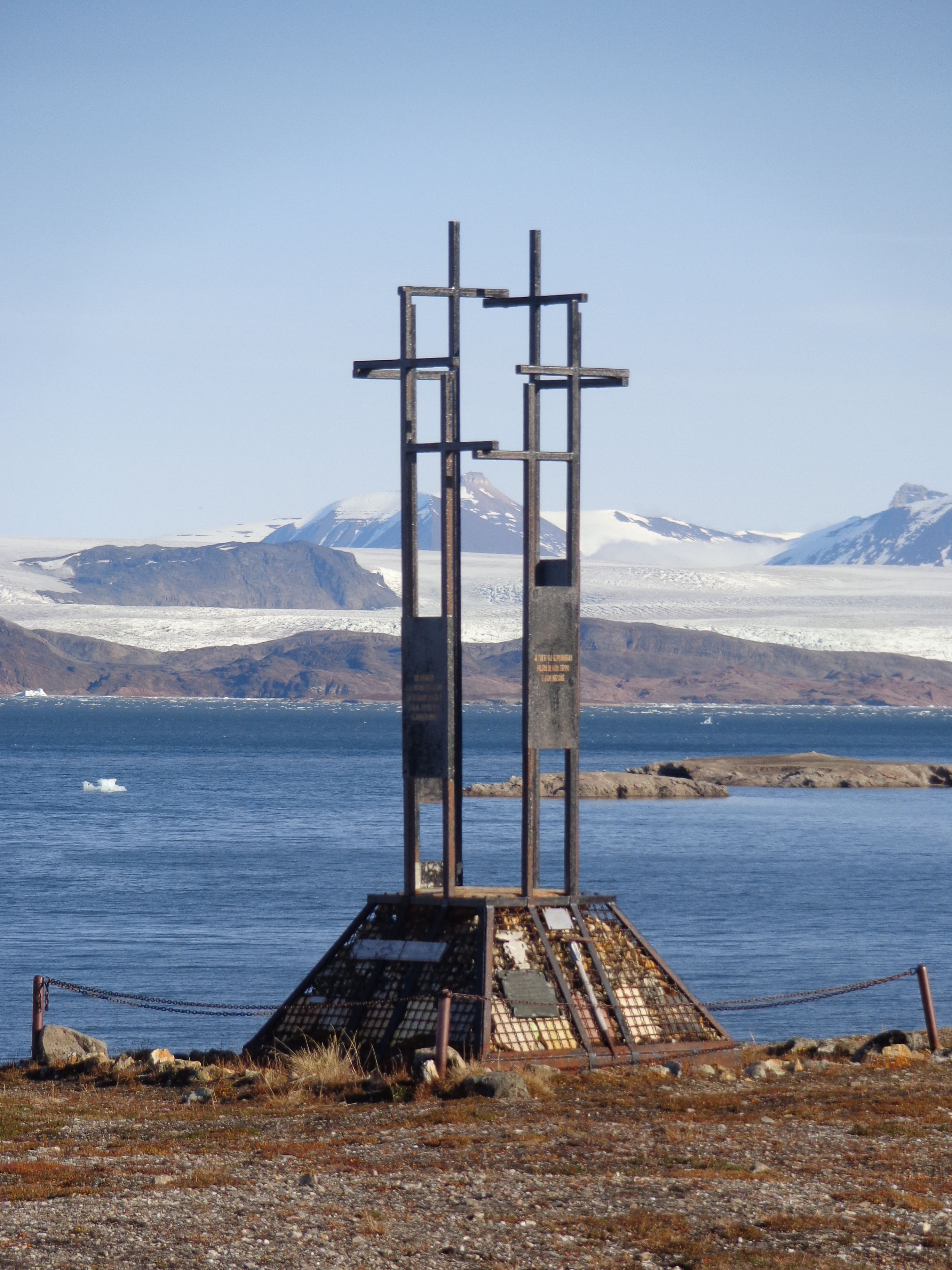 Monument to the dead of the Dirigibile Italia expedition of 1928, Ny-Ålesund